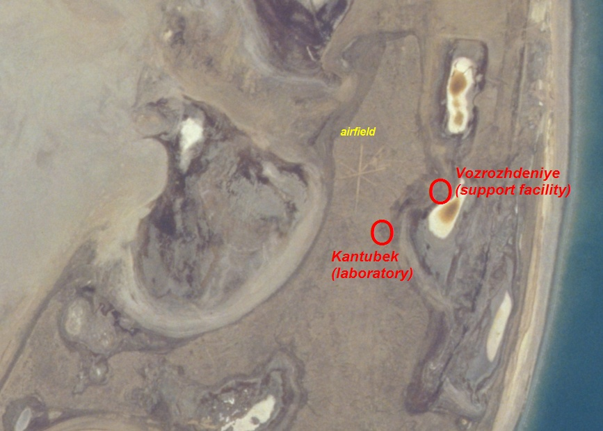 Kantubek and Vozrozhdeniye villages on Vozrozhdeniya Island, Aral Sea, Uzbekistan. former secret Sovjet biological warfare laboratory in Kantubek and Vozrozhdeniye support facility drawn by Julo on the NASA satellite photo (shot Nov.8th, 1994)